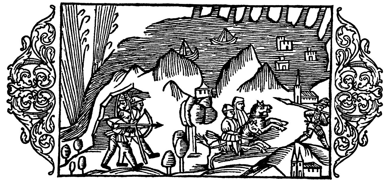 The lake is Vänern. To the left Trollhättan with its large and noisy waterfalls. The church with one tower represents the town of Lidköping, while the church with two towers is the cathedral of Skara. Two robbers with crossbows leave their cave in order to attack two unarmed civil horse riders. To the right a soldier with a lance.